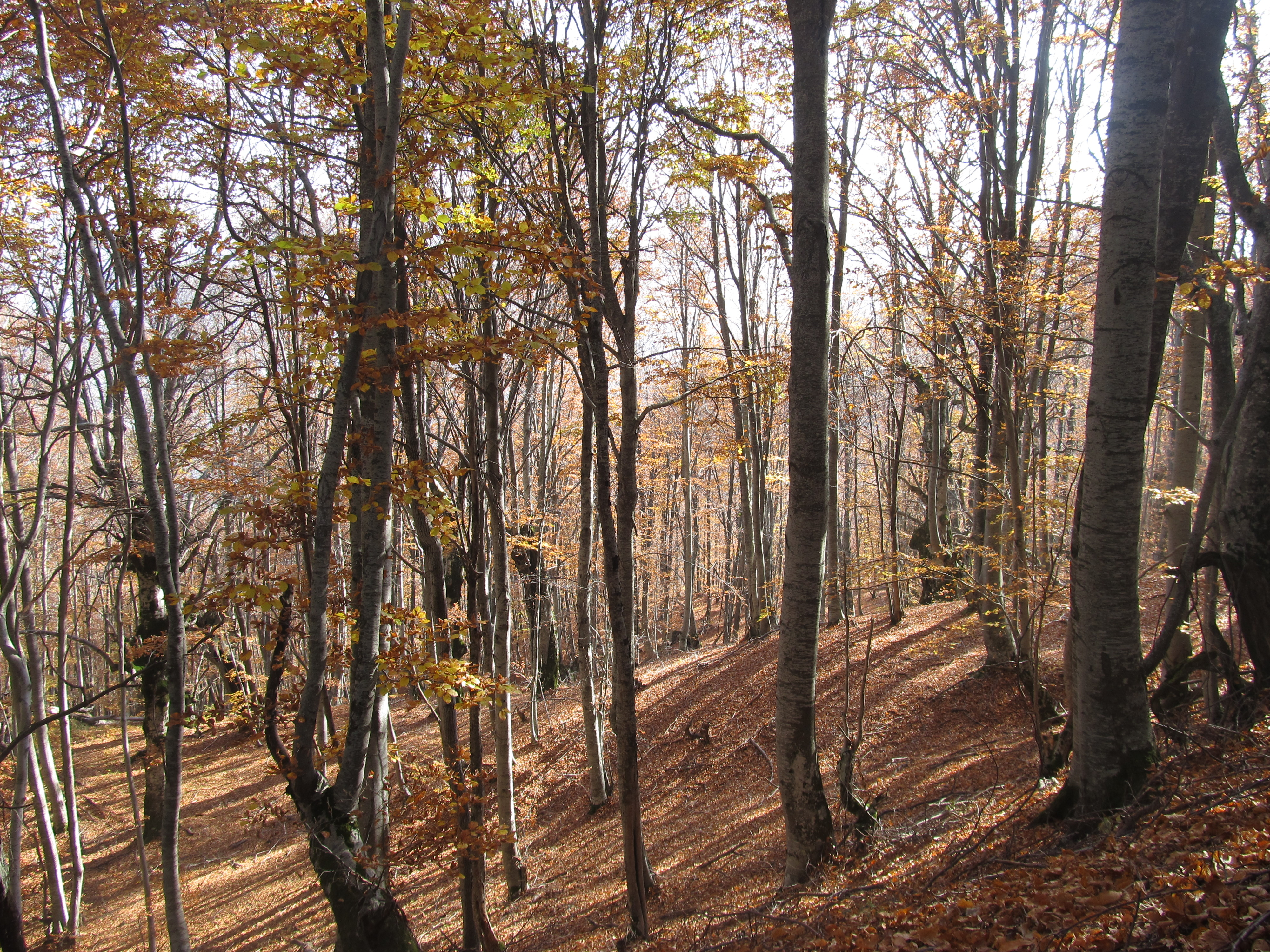 Reserve Kongura, Beech Forest, Belasitsa, Bulgaria